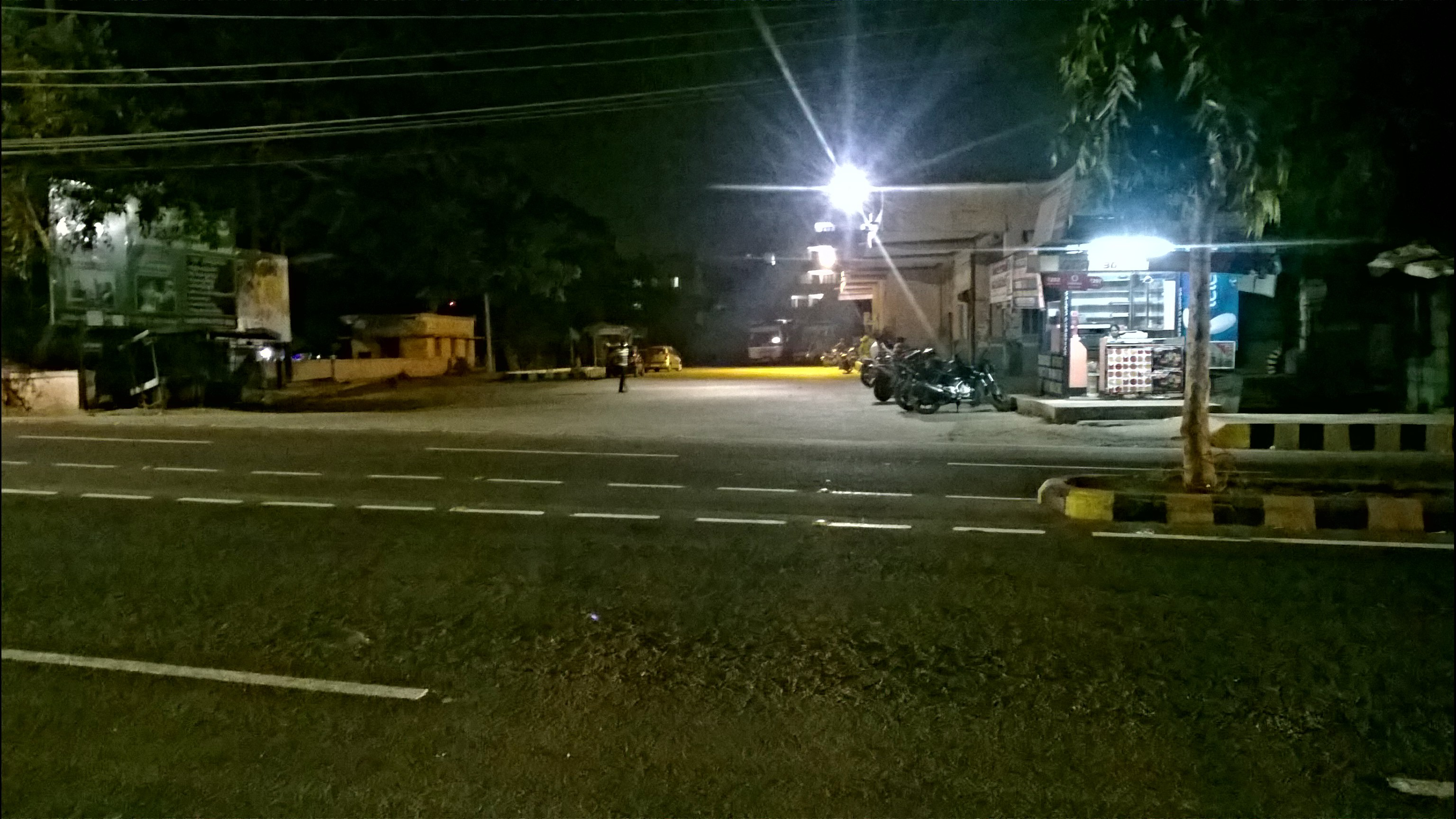 MVP Colony Bus Station